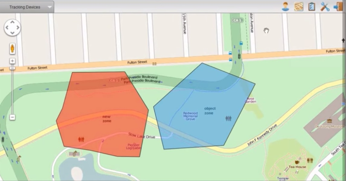 Two geo-fence zones defined in Golden Gate Park, San Francisco, California, USA, by a Global Positioning System application.